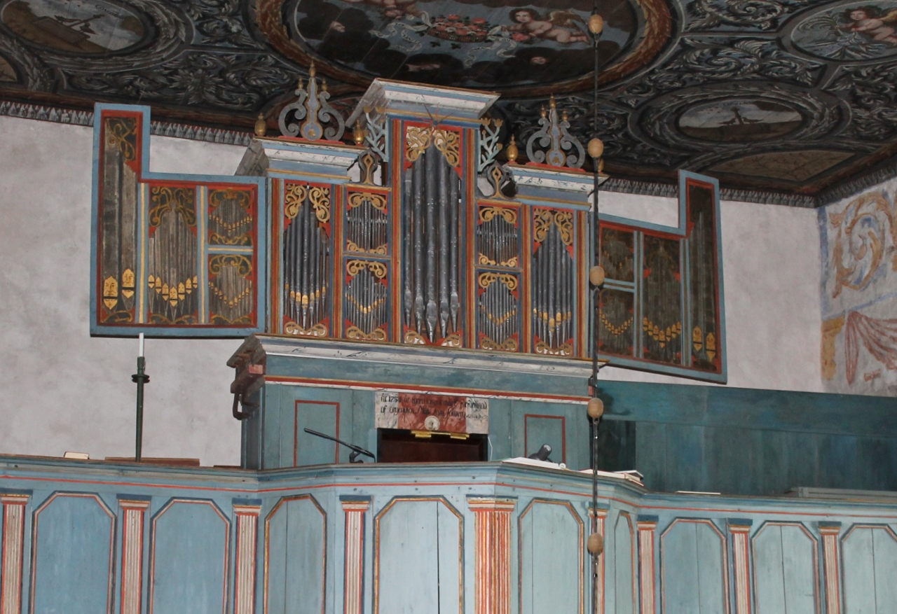 Lannaskede old Church.Organ.